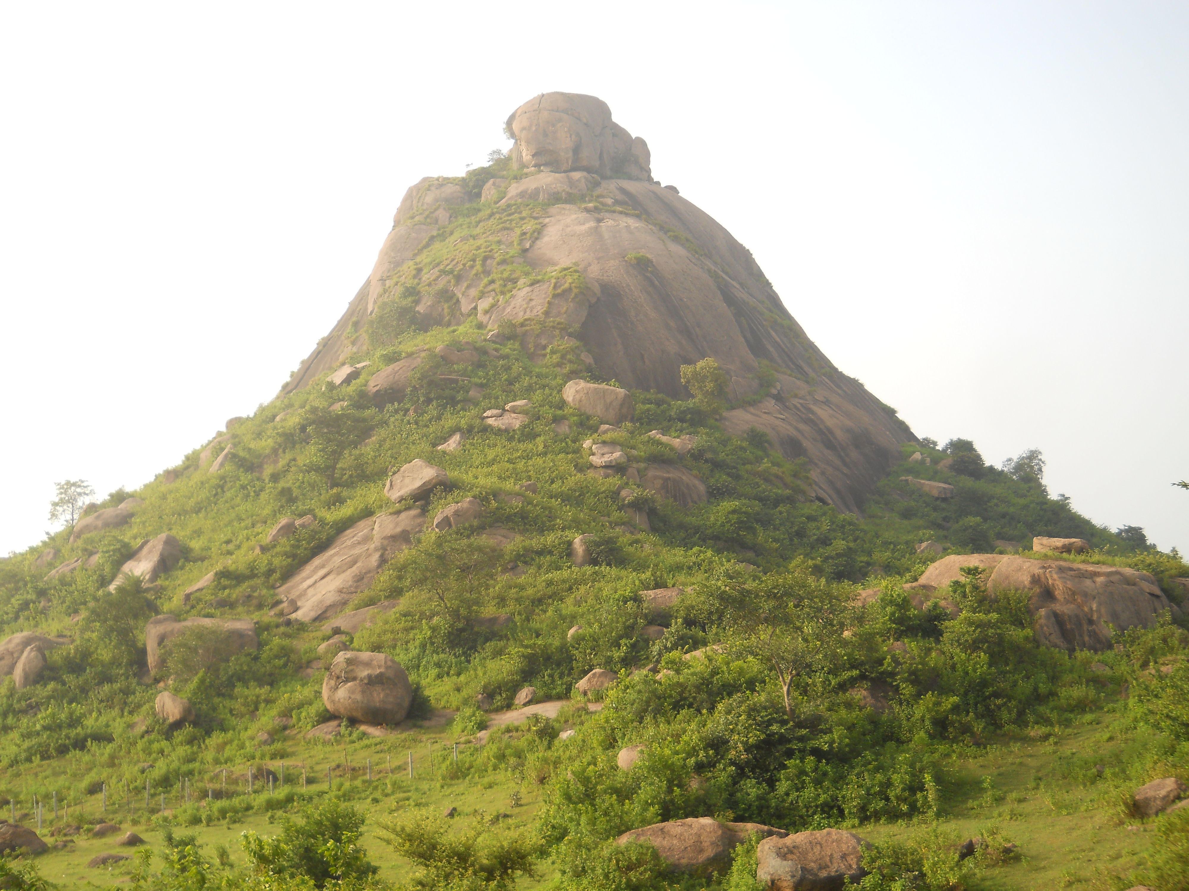 Joychandi Hill top, in Purulia